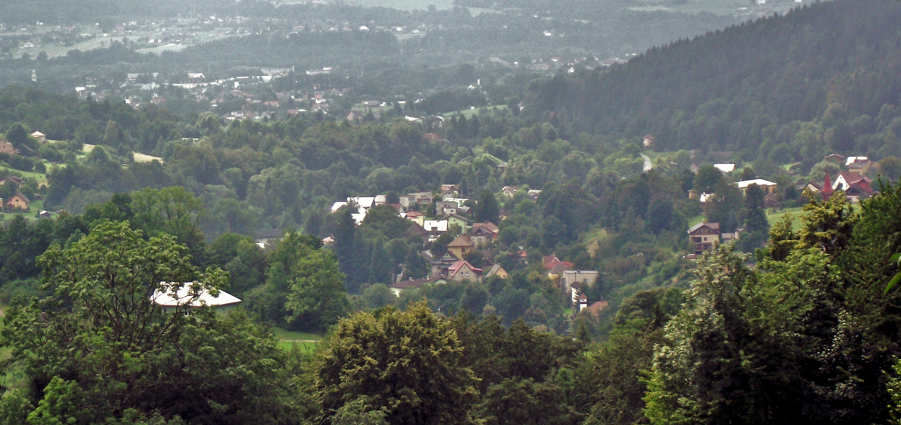 A view of Nýdek from the Czantoria Mount.